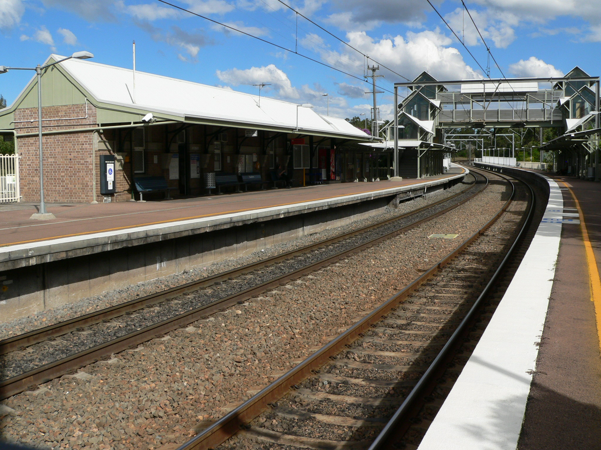 Fassifern Station 4